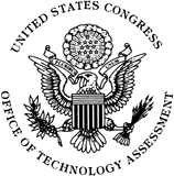 USA government